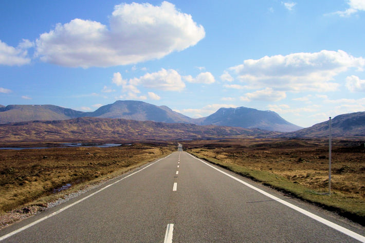 Road from the Highlands south out of Glencoe across Rannoch Moor, Scotland